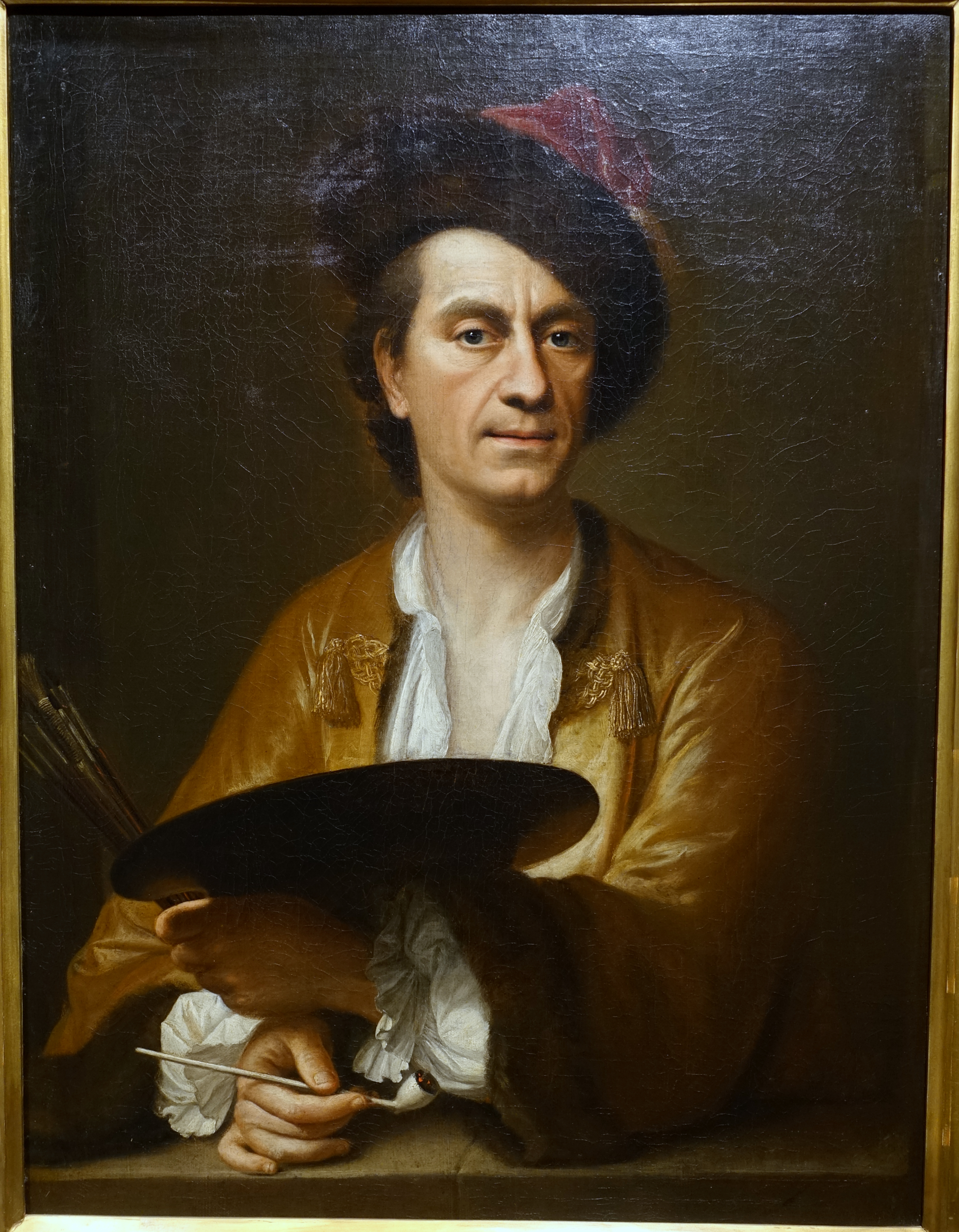 Exhibit in the Hessisches Landesmuseum Darmstadt - Darmstadt, Germany.